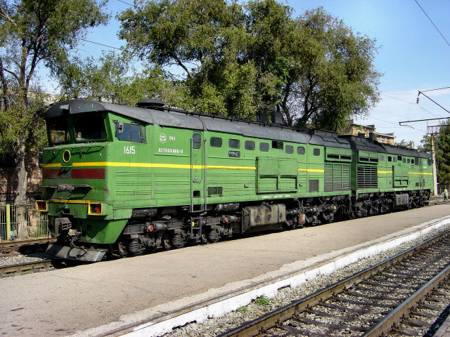 Russian diesel locomotive 2TE10 (2ТЭ10) at Astrakhan 1 Railroad station, just detached from train 395C, coming from Makhachkala (Dagestan) and traveling to Rostov-na-Donu.